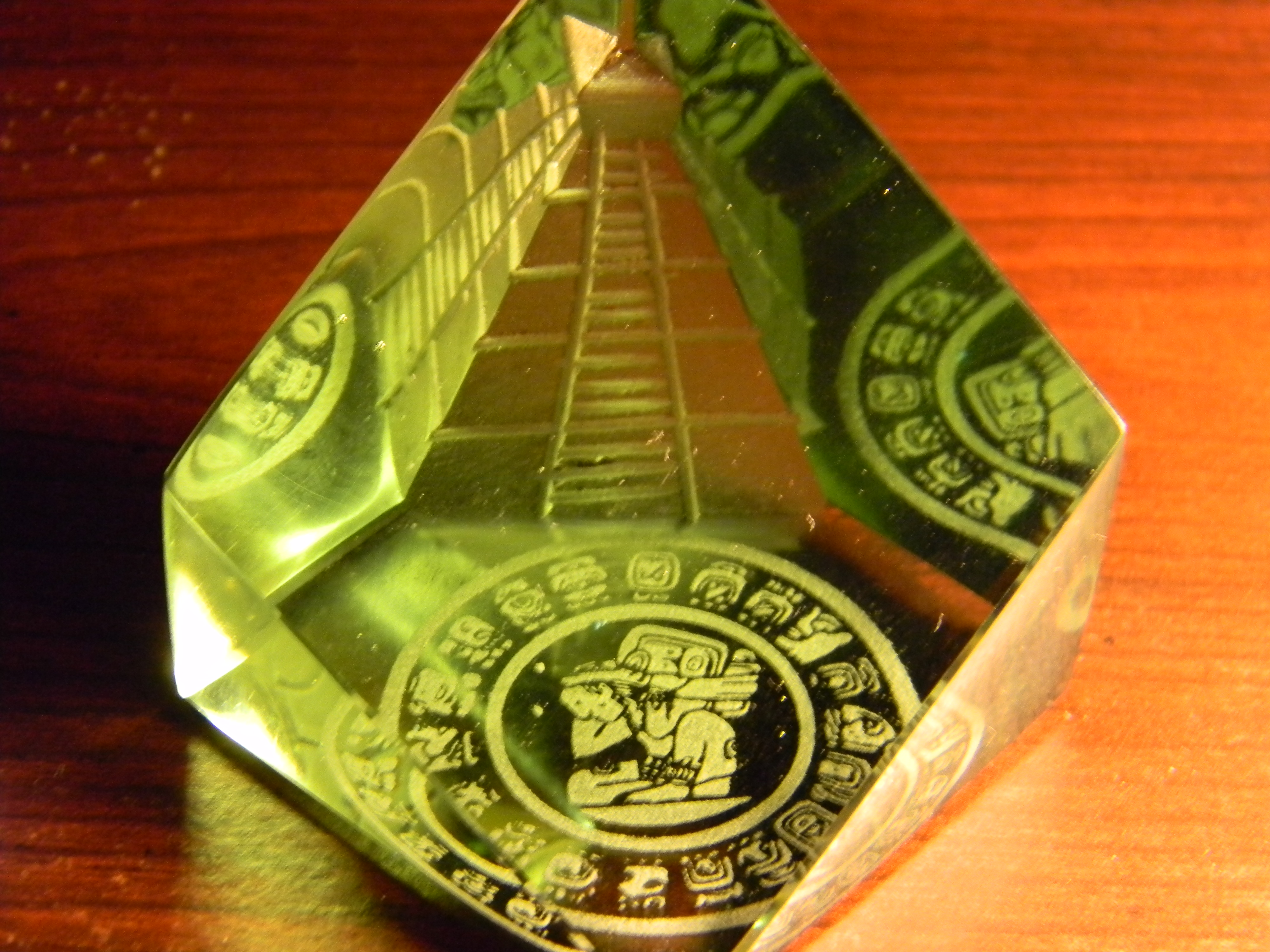 Mayan Calendar and Pyramid on glass